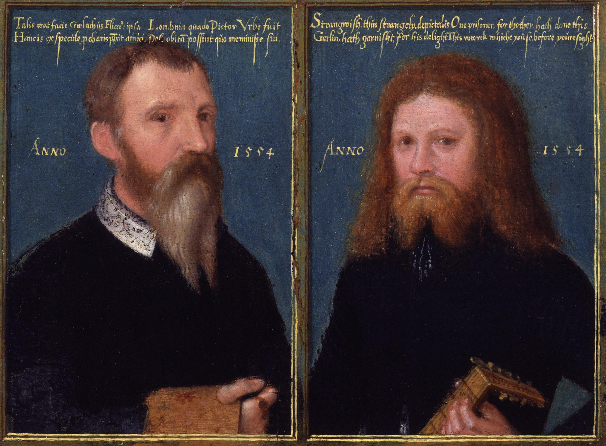 Self portrait of the painter Gerlach Flicke (left) together with the gentleman pirate Henry Strangwish or Strangways.The dyptichon was painted in 1554, when both men were in arrest (probably in the Tower of London). The reason for the imprisonment of Flicke is not known. All images in this batch have a known author, but have manually examined for strong evidence that the author was dead before 1939, such as approximate death dates, birth dates, floruit dates, and publication dates.